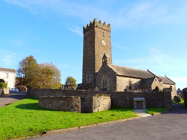 St. Illtyd's Church, Pembrey The present building was probably constructed between the 13th and 15th centuries. Pembrey (or Penbre) Church was a landmark for shipping in the hazardous Burry Estuary, where many came to grief on the Cefn Sidan sands. Over 200 sailors are buried in the churchyard. The circular structure outside the churchyard wall is a cattle pound. This was used to impound stray cattle, which their owners could reclaim after paying a fee. (This description paraphrased from the useful information board by the church gate).